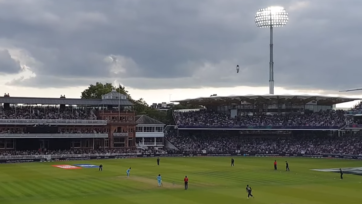 the final over during the cricket world cup final 2019.